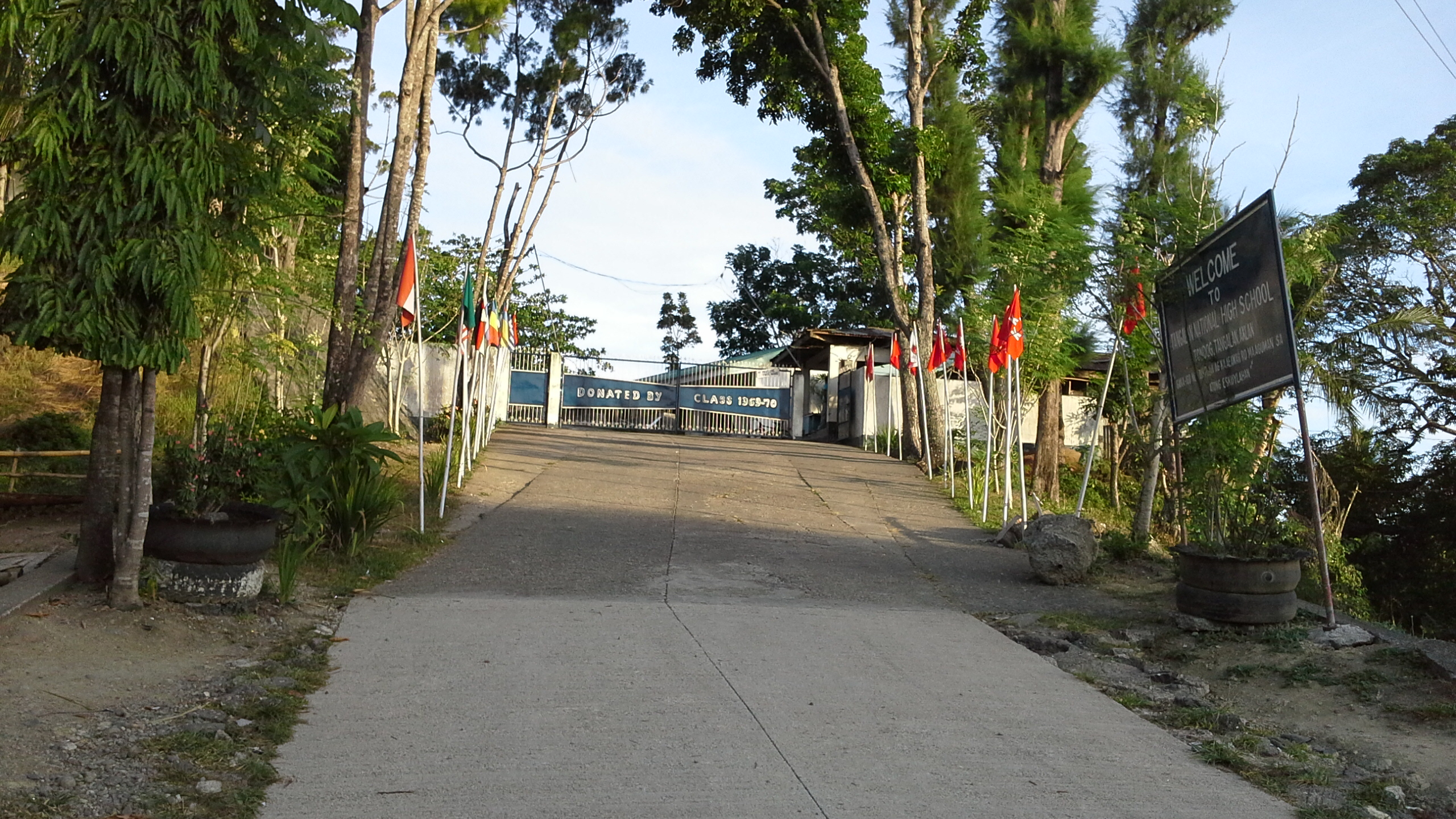 The front gate of Tangalan National High School, Tangalan, Aklan.